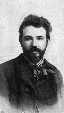 Feszty Árpád